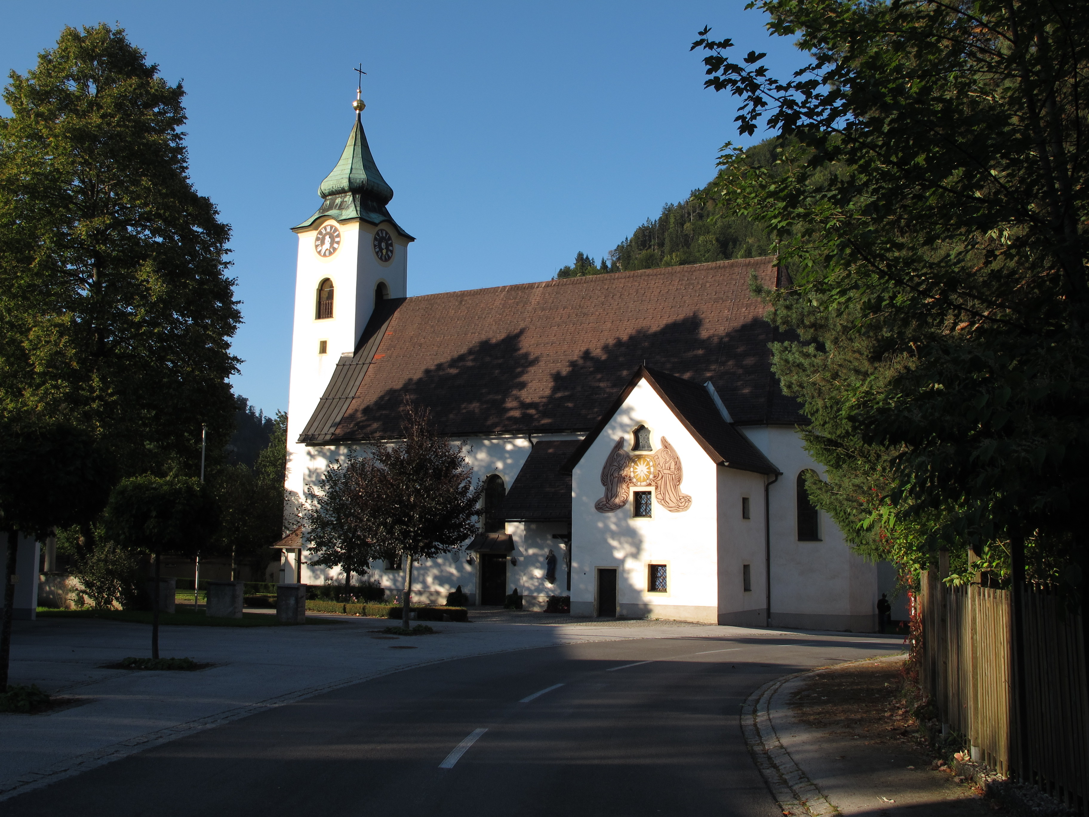 Church Altenmarkt